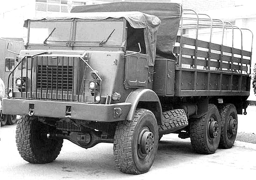 Pegaso 3050 military truck. Developed out of DAF YA 414 prototype.